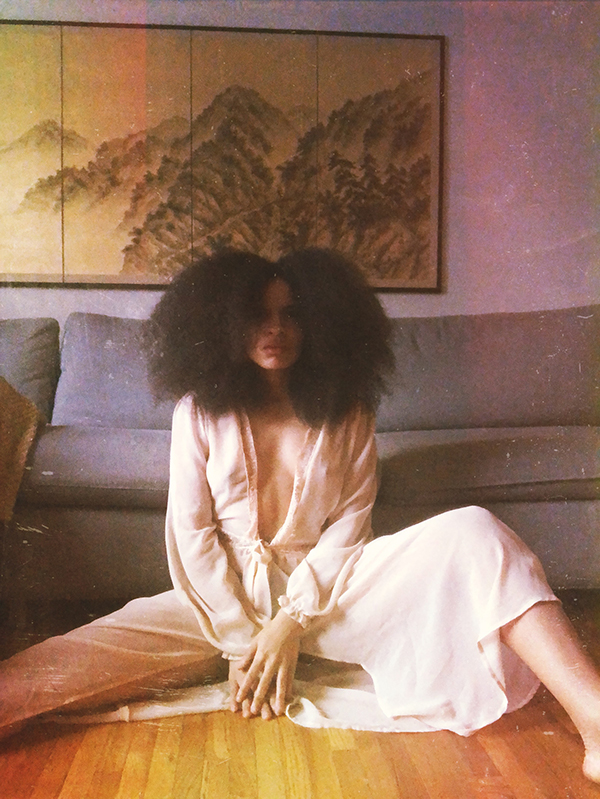 Photo of Shungudzo